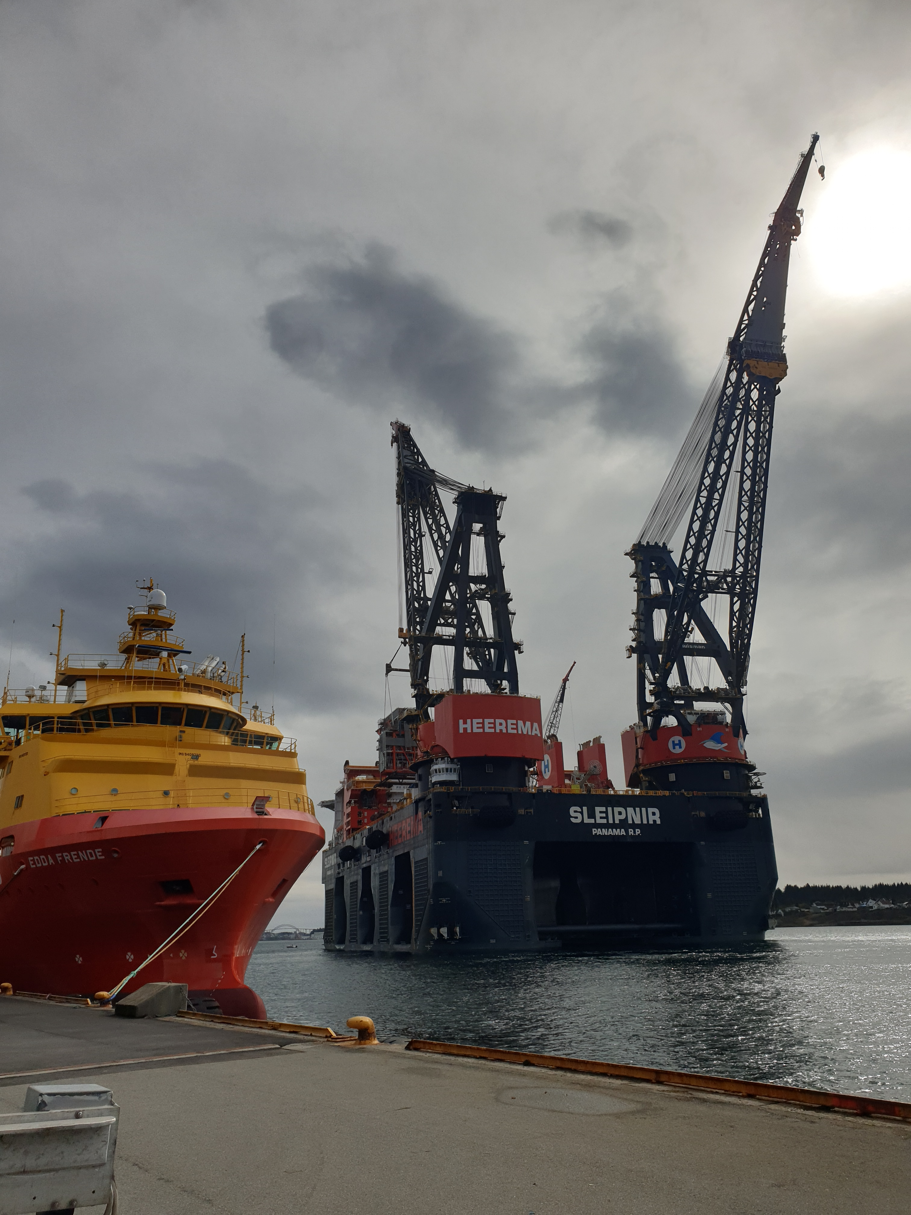 Sleipnir lifting onboard an 650 ton heavy module to be placed on the oilrig Snorre A.